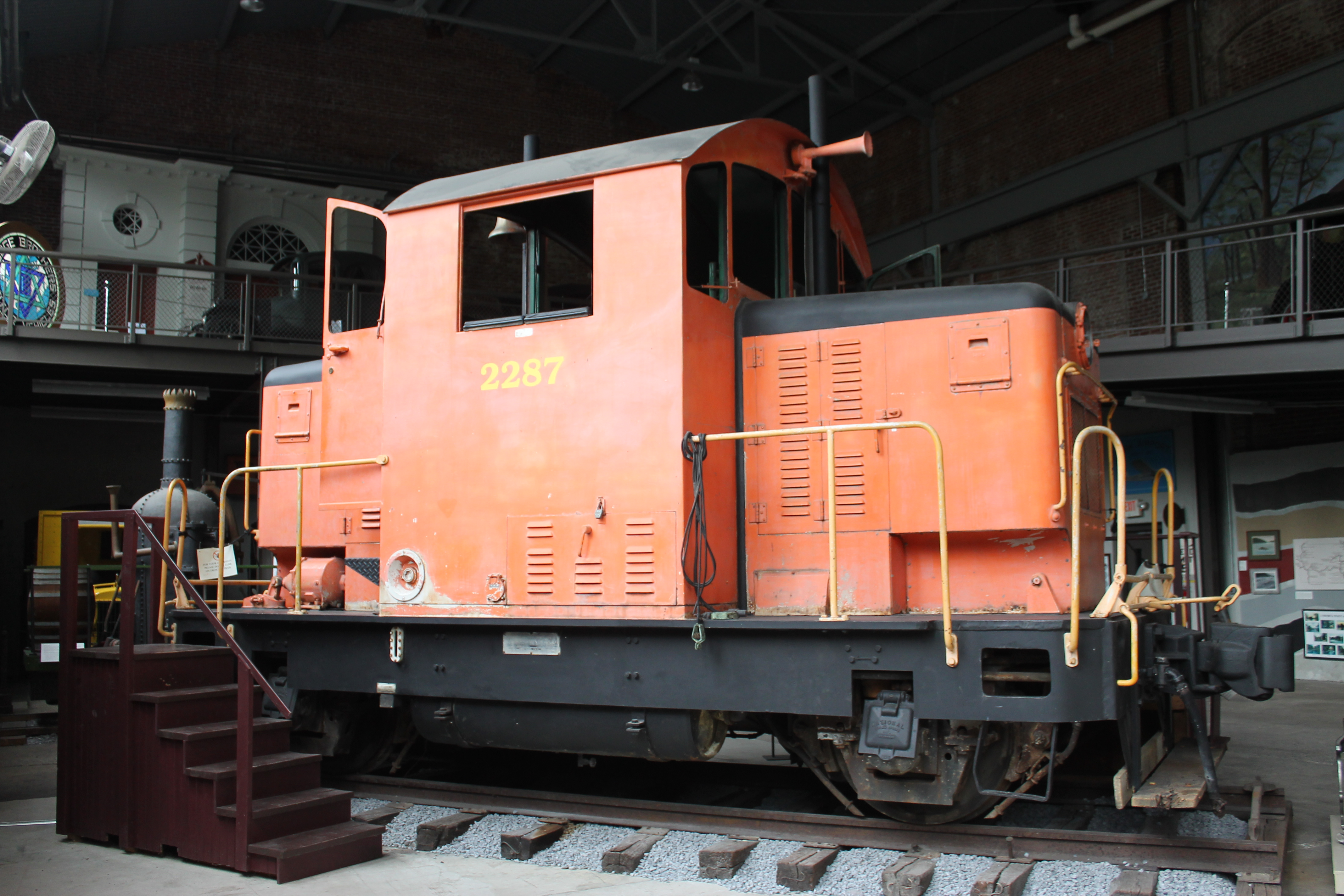 EMD #2287 located at the York County Heritage Center